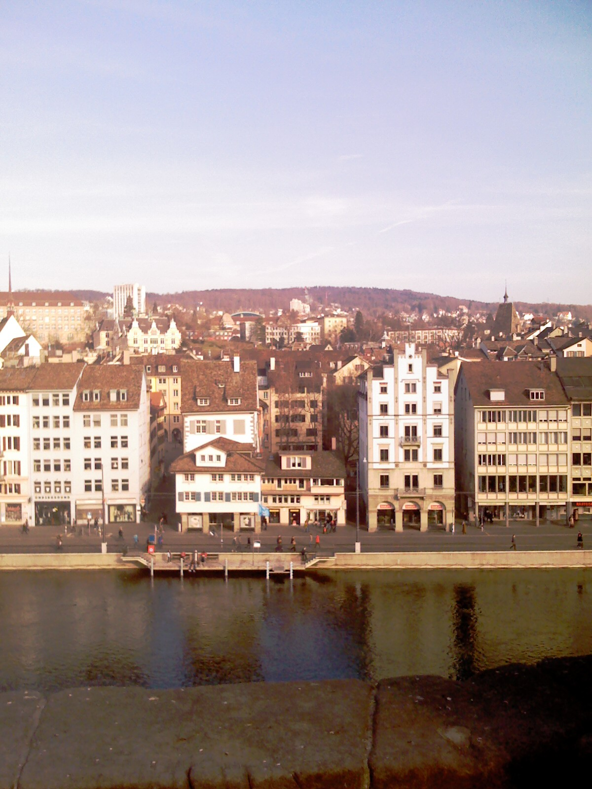 View to Niederdorf and Limmat from Lindenhof, ZurichEsperanto: Vido al Niederdorf kaj Limato ek de Lindenhof, Zuriko